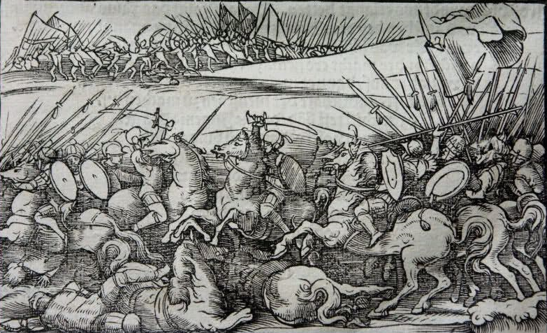 Skanderbeg battling Ibrahim Pasha in Polog 1453